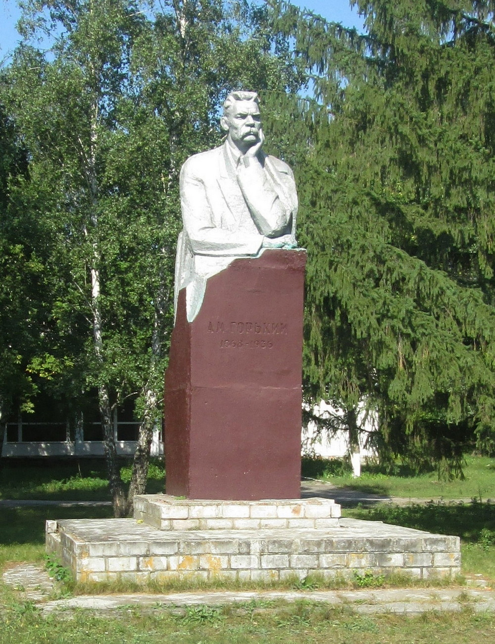 Monument of Maxim Gorky in the village Verkhnya Manuilivka, Kozelshchyna Raion, Poltava Oblast